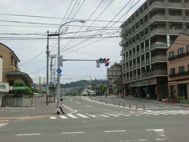 Ending point of Fukuoka Prefectural Road No.51 of Kitakyushu city,Fukuoka prefecture,Japan.